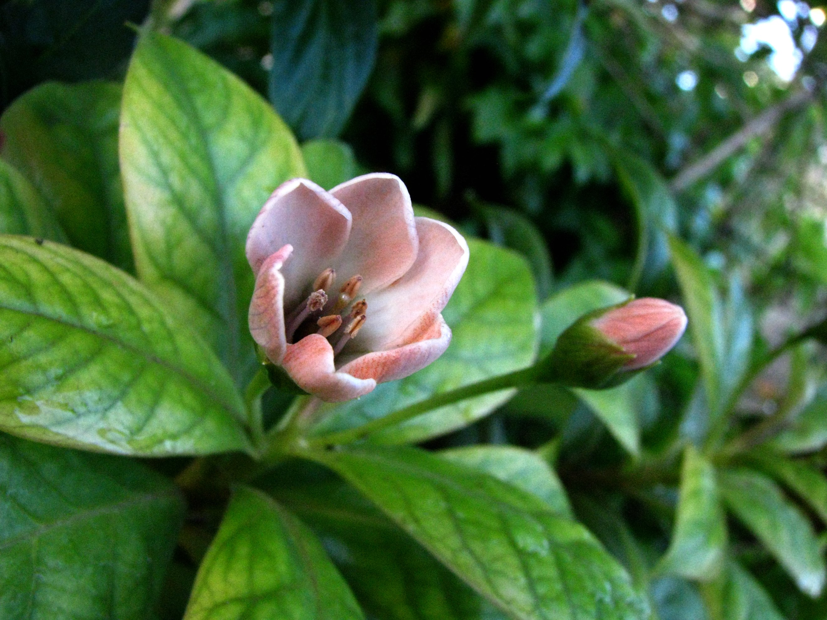 Kokeʻe yellow loosestrife Primulaceae Endemic to the Hawaiian Islands (Kauaʻi only) Oʻahu (Cultivated)